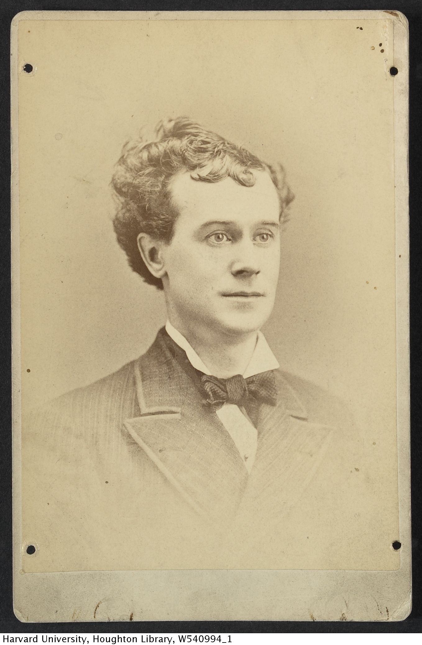 Cabinet card image of American vaudeville actor and female impersonator Francis Leon (b. 1844). From a collection dated 1919. TCS 1.638, Harvard Theatre Collection, Harvard University